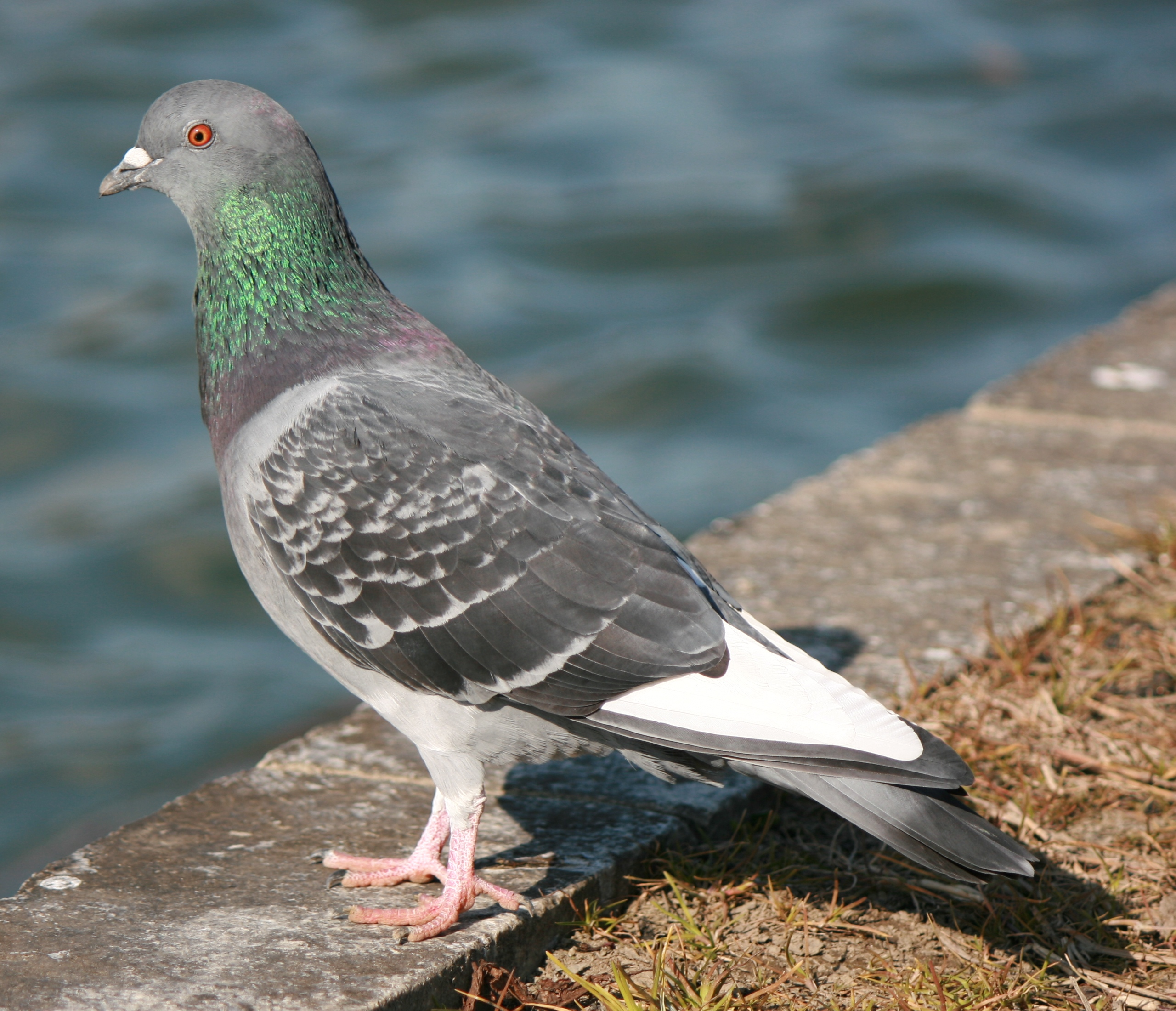 Columba livia in Japan